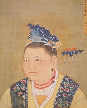 The Official Imperial Portrait of Song Dynasty's Empress